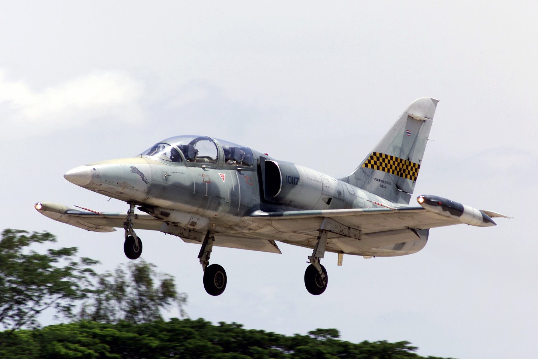 A Royal Thai Air Force L-39ZA Albatros aircraft from Wing1Royal Thai Air Force Base, Korat shortly after takeoff during Exercise COBRA GOLD 2000.